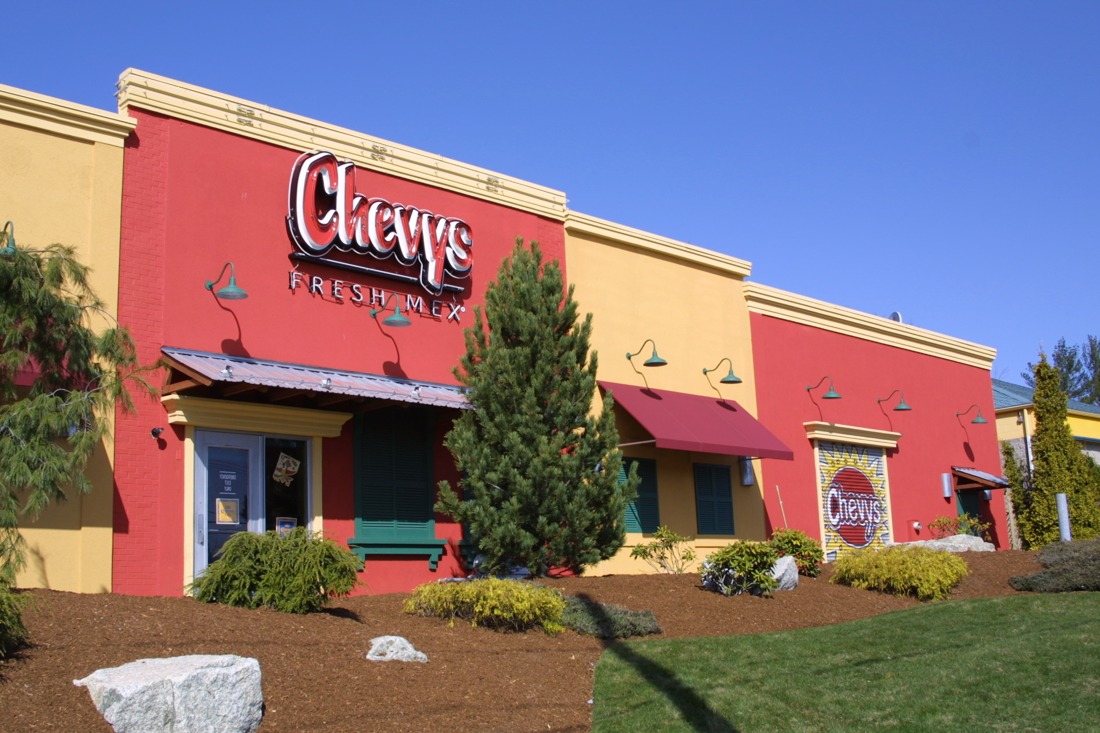 The outside of a Chevys Fresh Mex restaurant in April 2001.